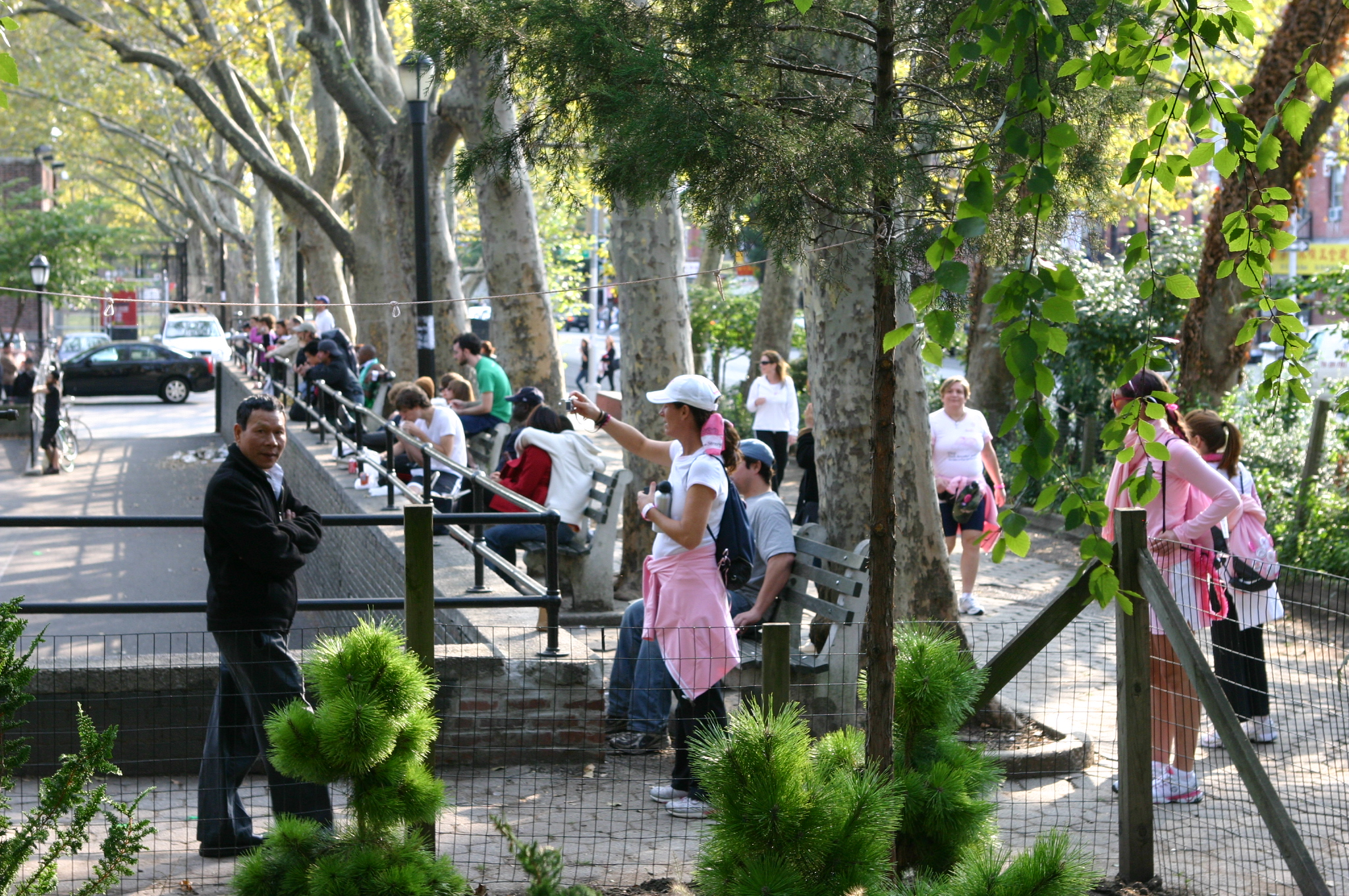 This photo is of Wikis Take Manhattan goal code F35, Sara Delano Roosevelt Park, shot showing as long a stretch of park as possible.